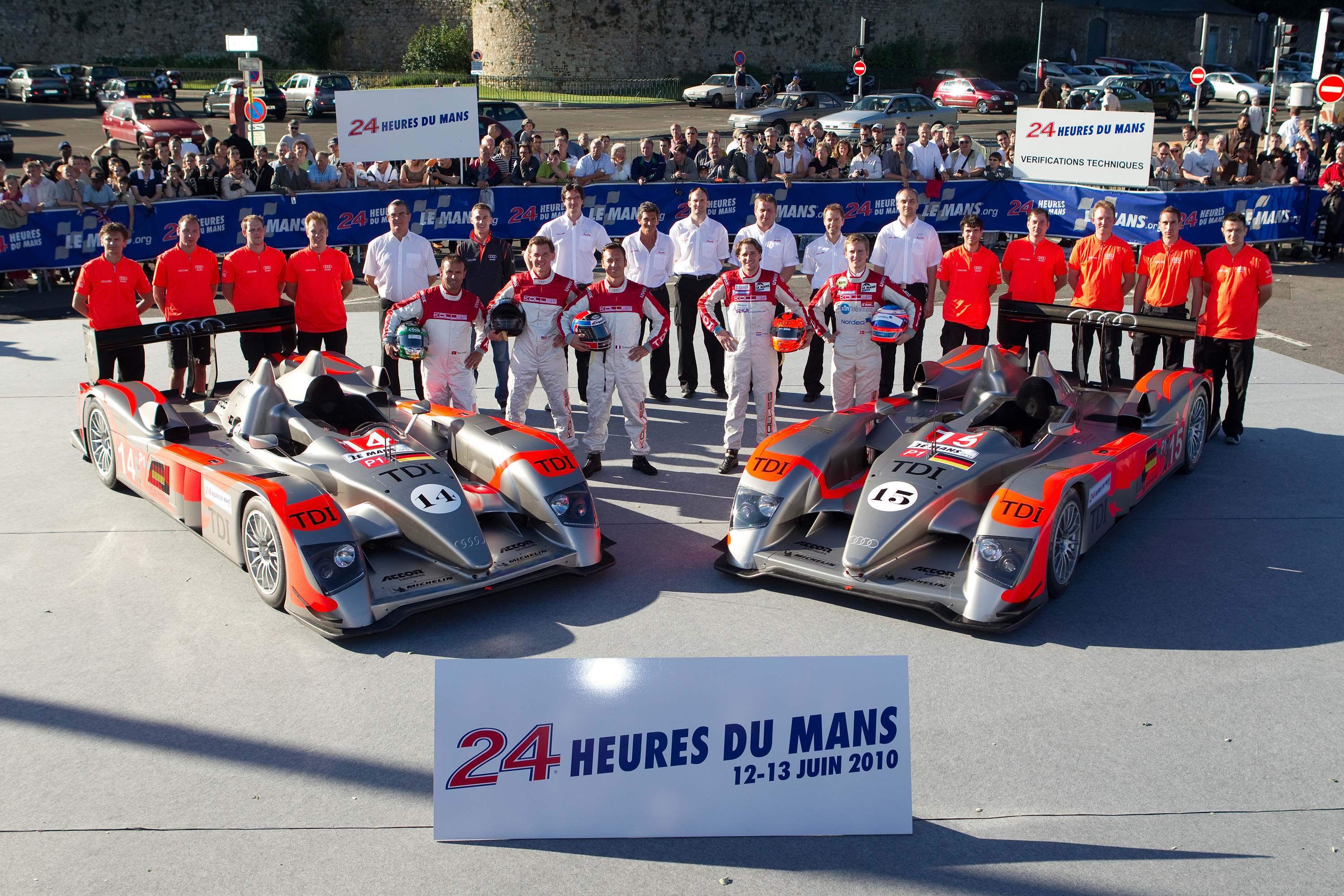 Scott Tucker at the 2010 Rolex 24-hours of Daytona ©2010 Richard Prince, , 631-427-0460 (USA), all rights reserved, all usage prohibited without express written permission from, and payment of a licensing fee to, Richard Prince.